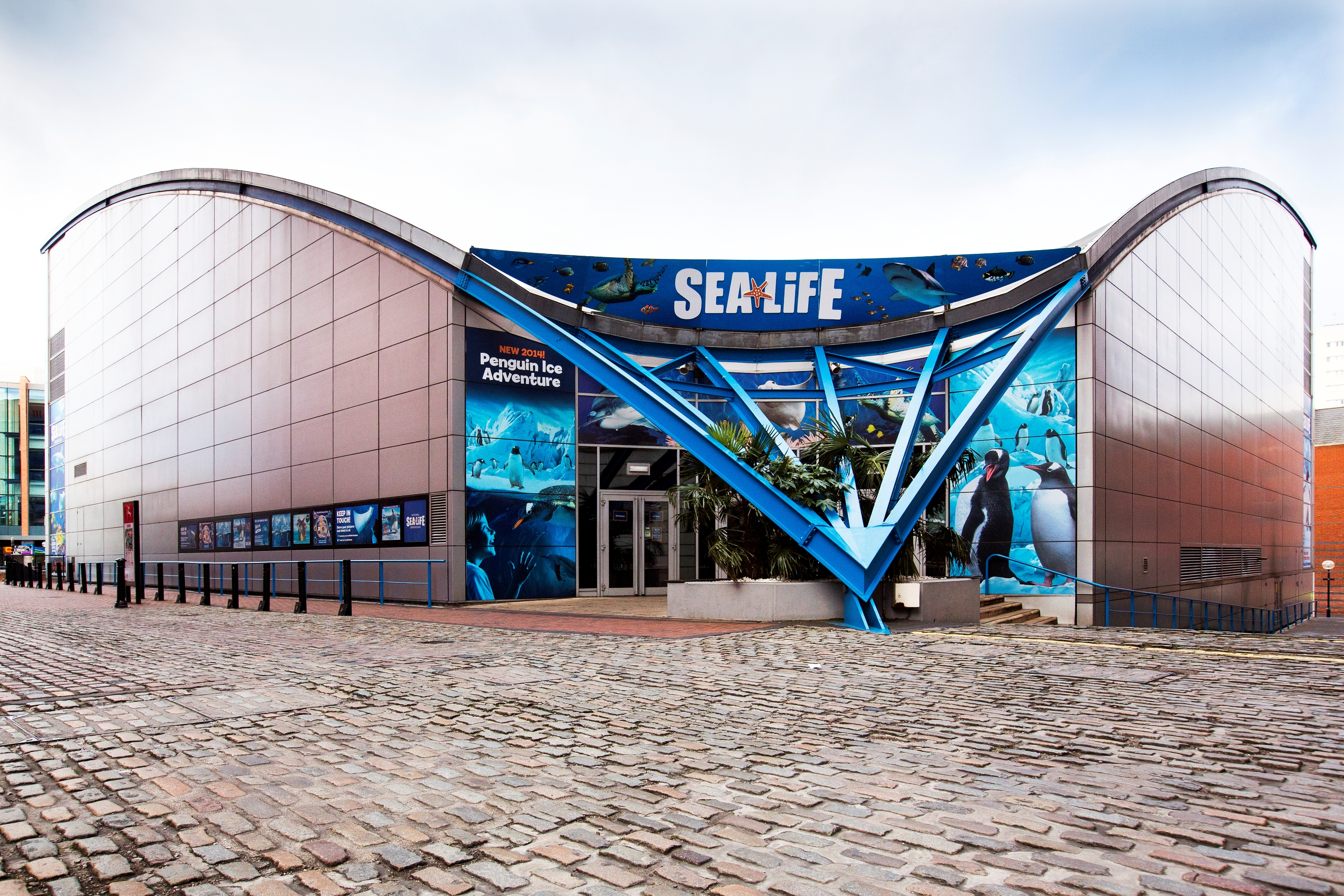 The National SEA LIFE Centre Birmingham is home to over 2,000 creatures from around the world. Including the cheeky colony of Gentoo Penguins and a shimmering array of sharks... The Centre also houses the UK's only 360 degree ocean tunnel.